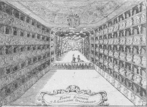 18th-century painting, reproduction of